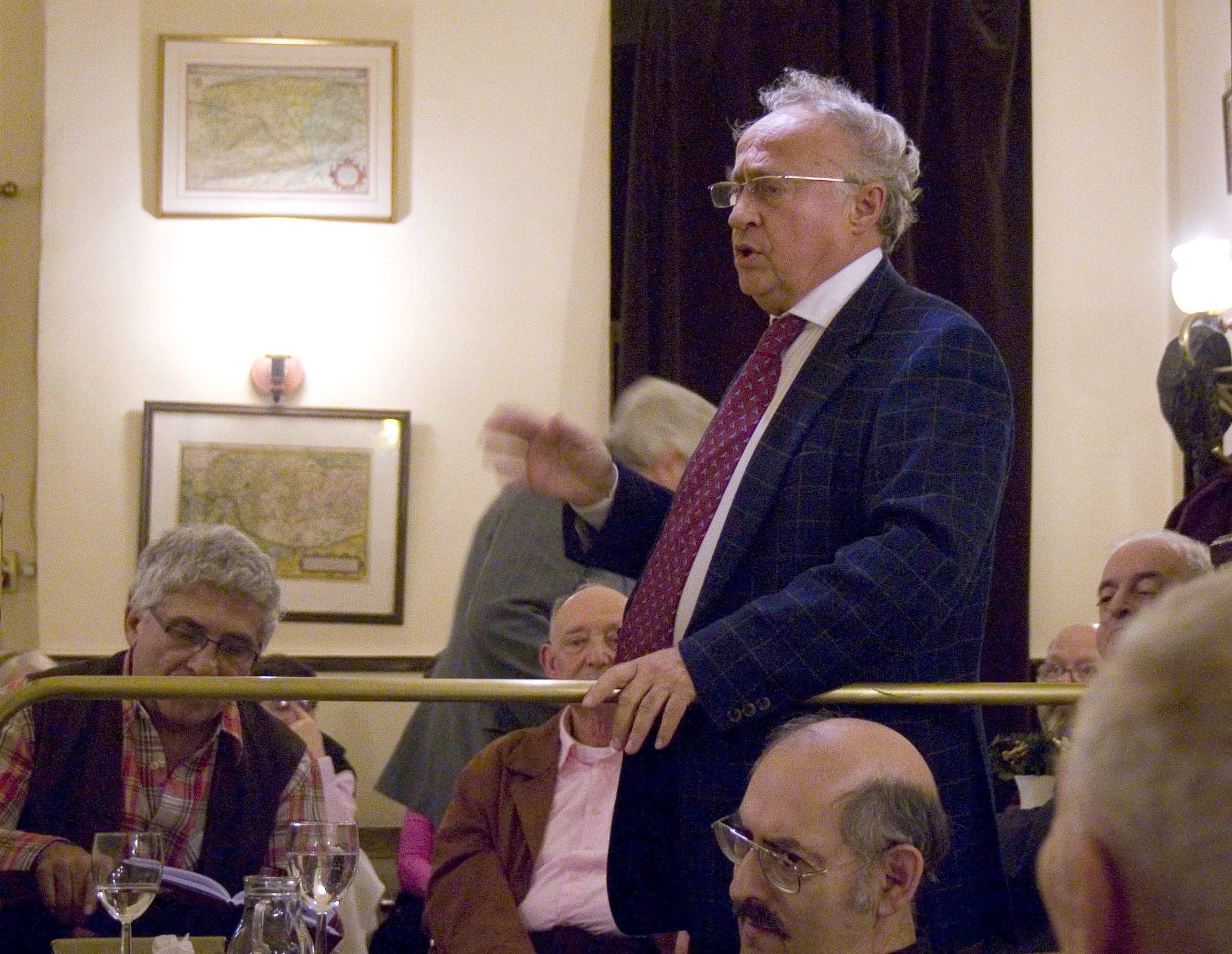 Hungarian actor, and comic actor, and ex director talks about Rezso Seress, the started Seress's book presentation - Seress job at a restaurant Kispipa, Budapest, Hungary.(29. 11. 2010.)